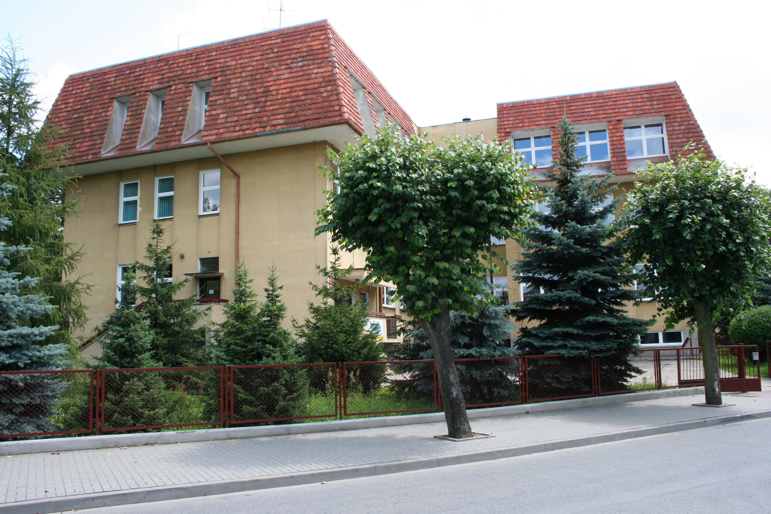 Primary School in Sieraków